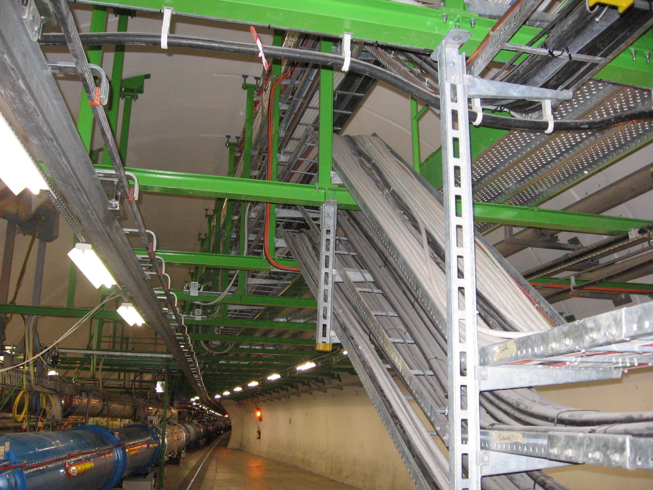 Cable conduit in the tunnel of the Large Hydron Collider (LHC) of the European Organization for Nuclear Research ((French: Organisation européenne pour la recherche nucléaire), known as CERN). In the background you can see the tunnel.